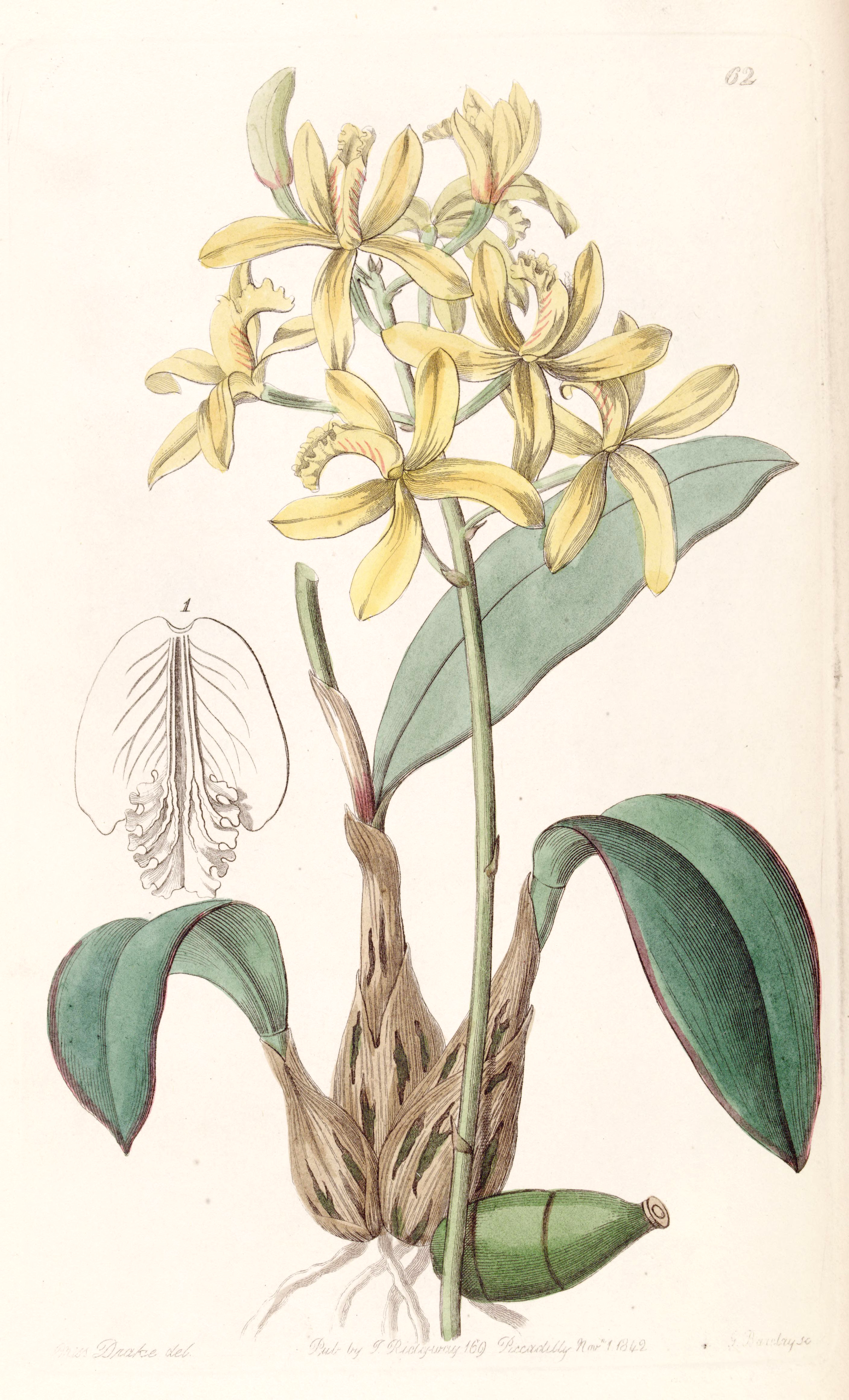 Sophronitis crispata (as syn. Laelia flava)